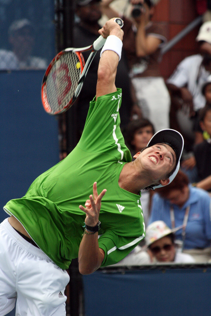 A tennis player from Japan, 錦織圭（Kei Nishikori.）